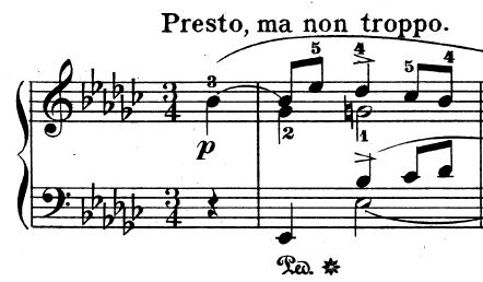 Chopin's Mazurka Op. 6 No. 4